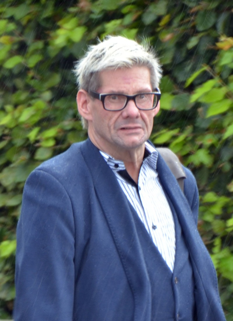 Bengt-Urban Fransson, former municipal commissioner in Arjeplog and editor-in-chief for the Piteå newspaper.